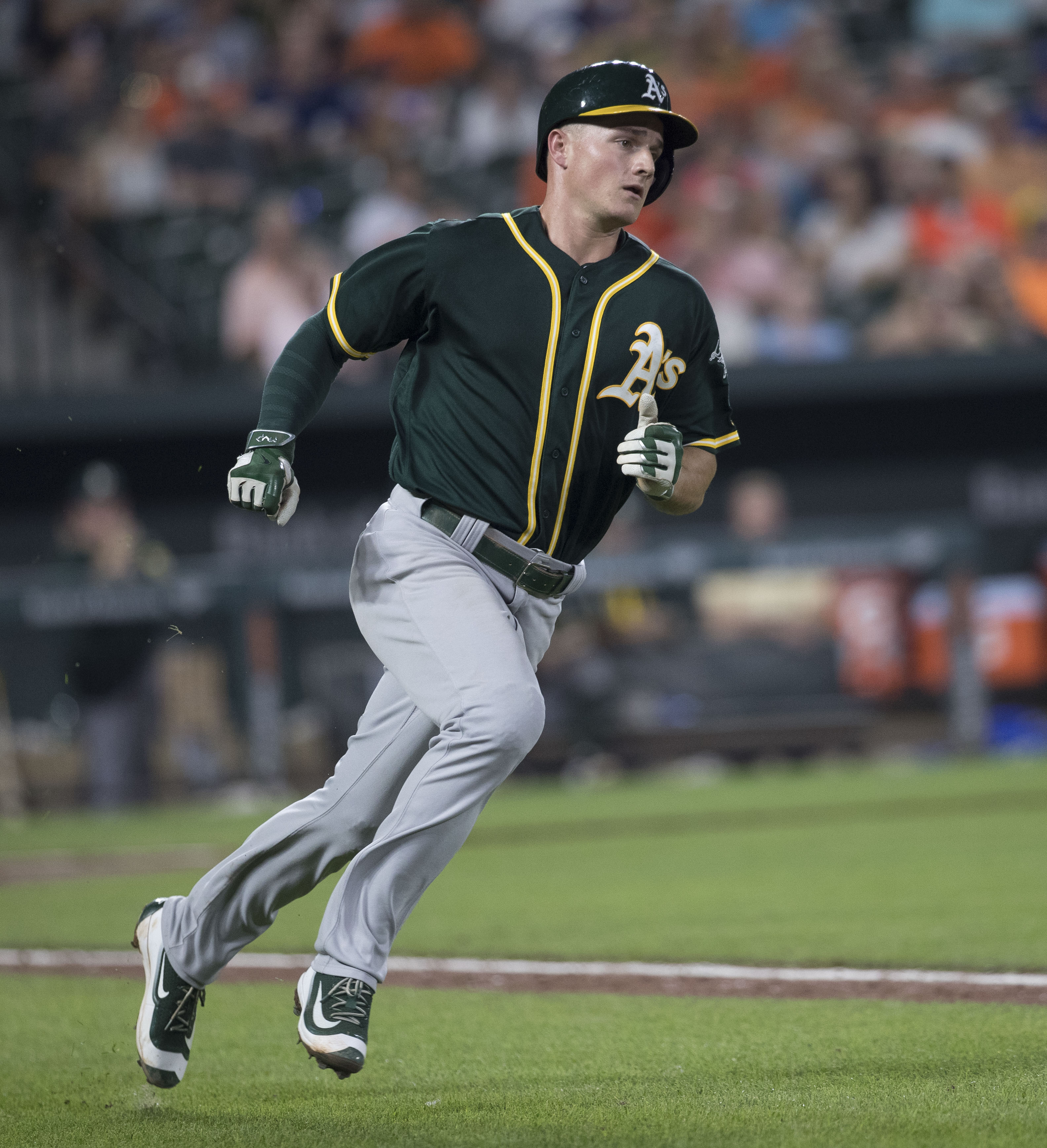 A's at Orioles 8/22/17